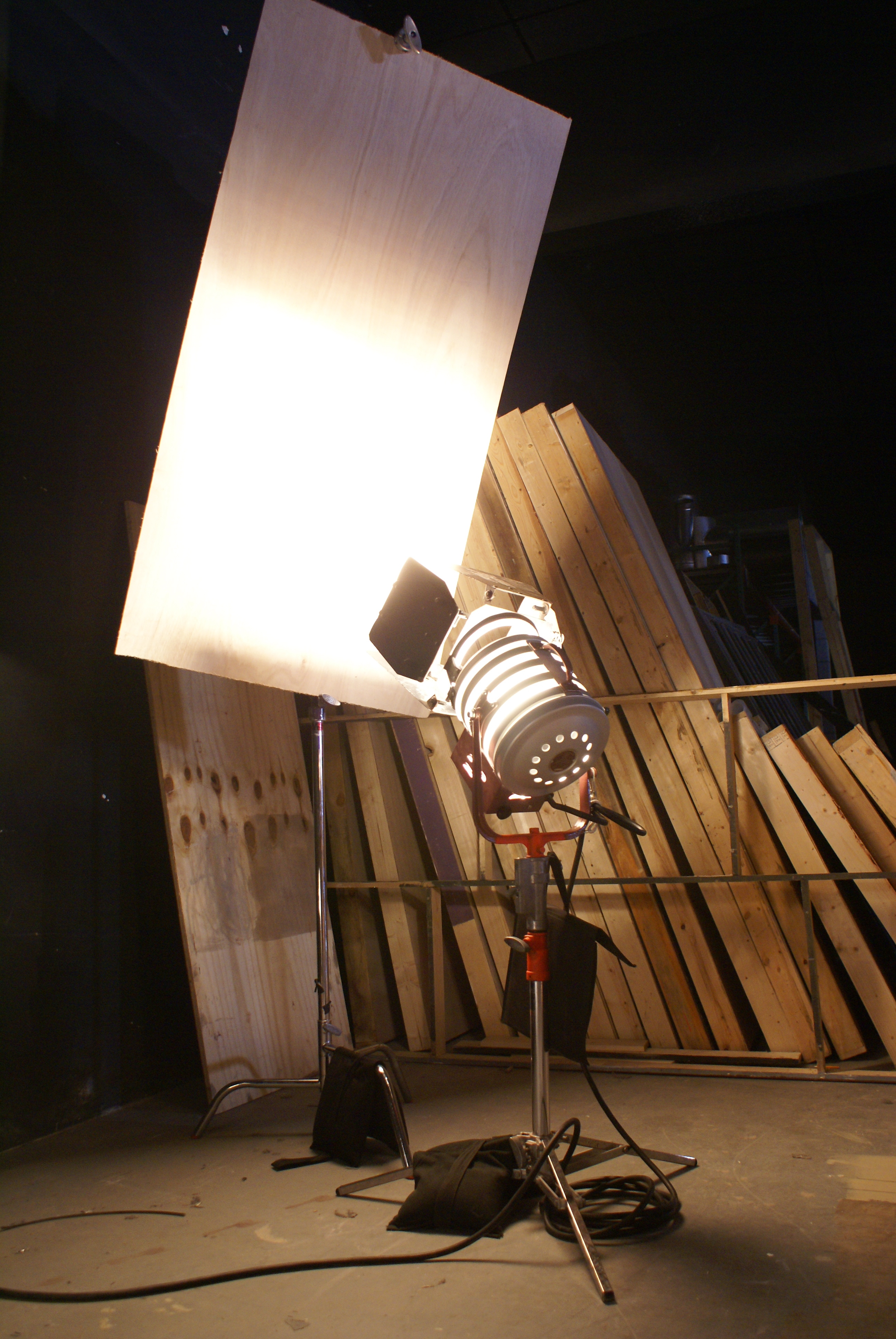 Light is bounced off a piece of plywood to create a softer, more diffuse light.